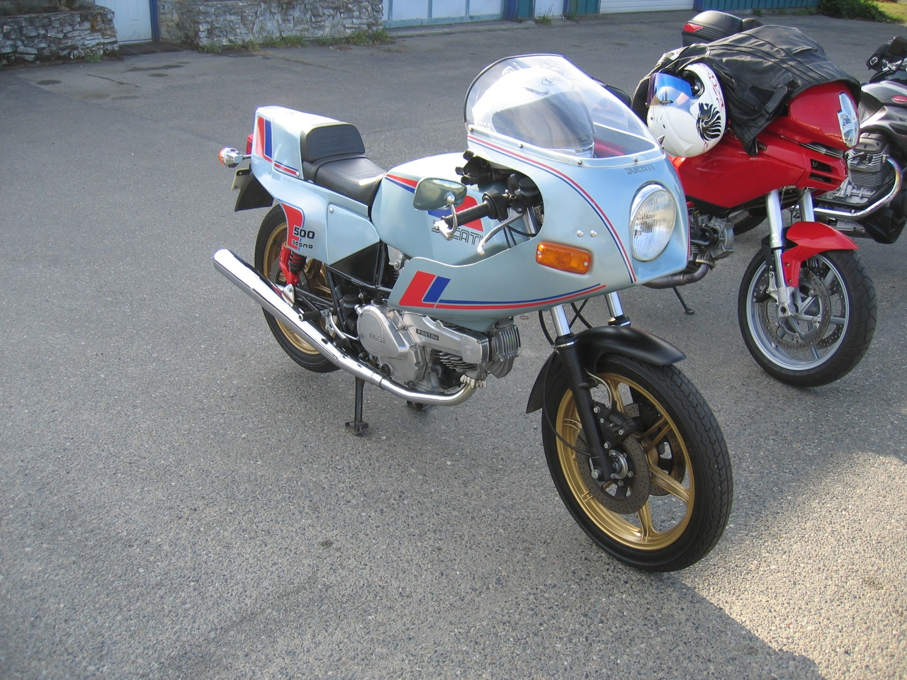 Ducati 500 L Pantah (1979-1983)